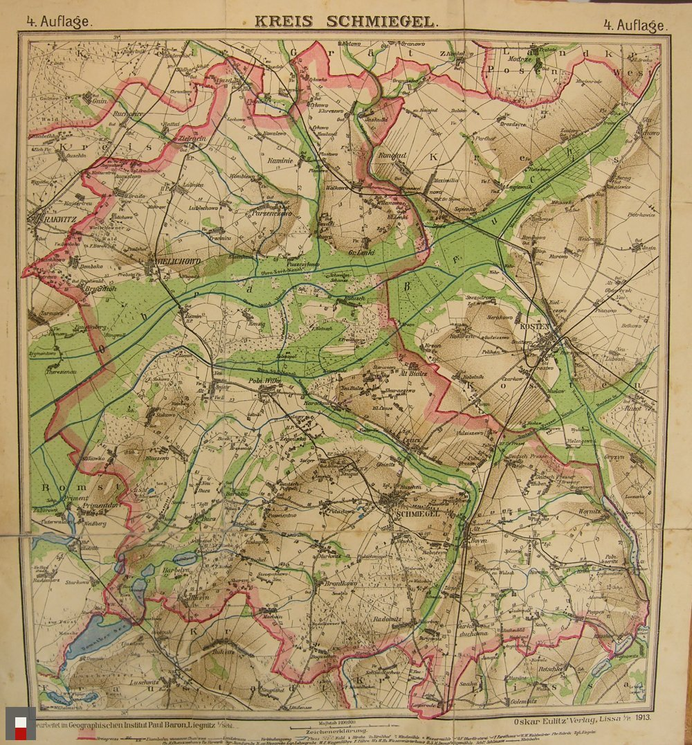 A chart of Kreis Schmiegel, 1913.